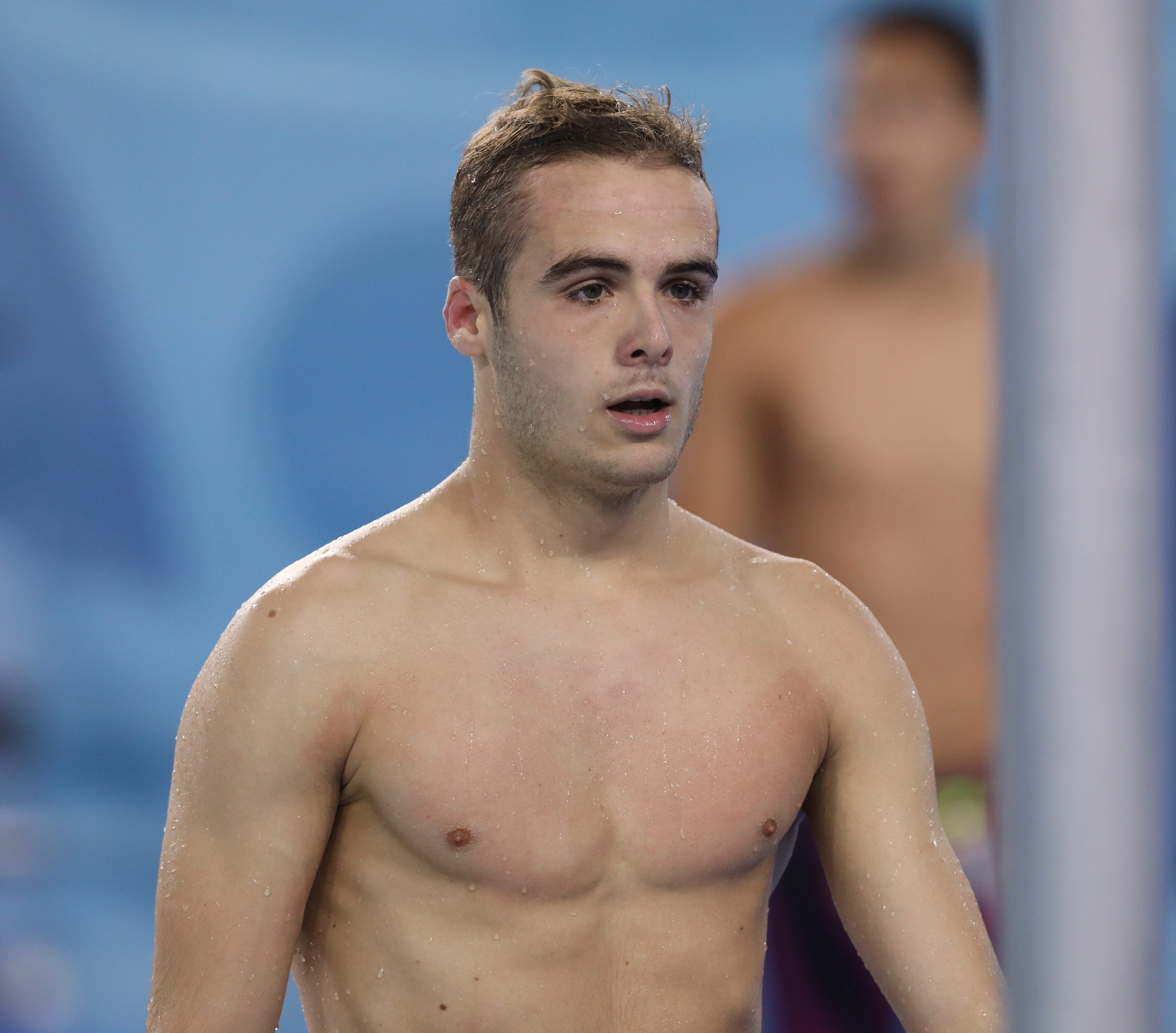 Modern Pentathlon male, Swimming: Heat 3